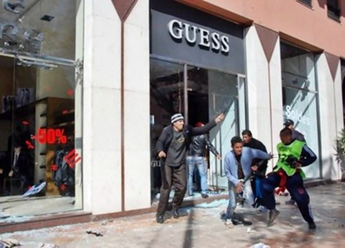 pillage